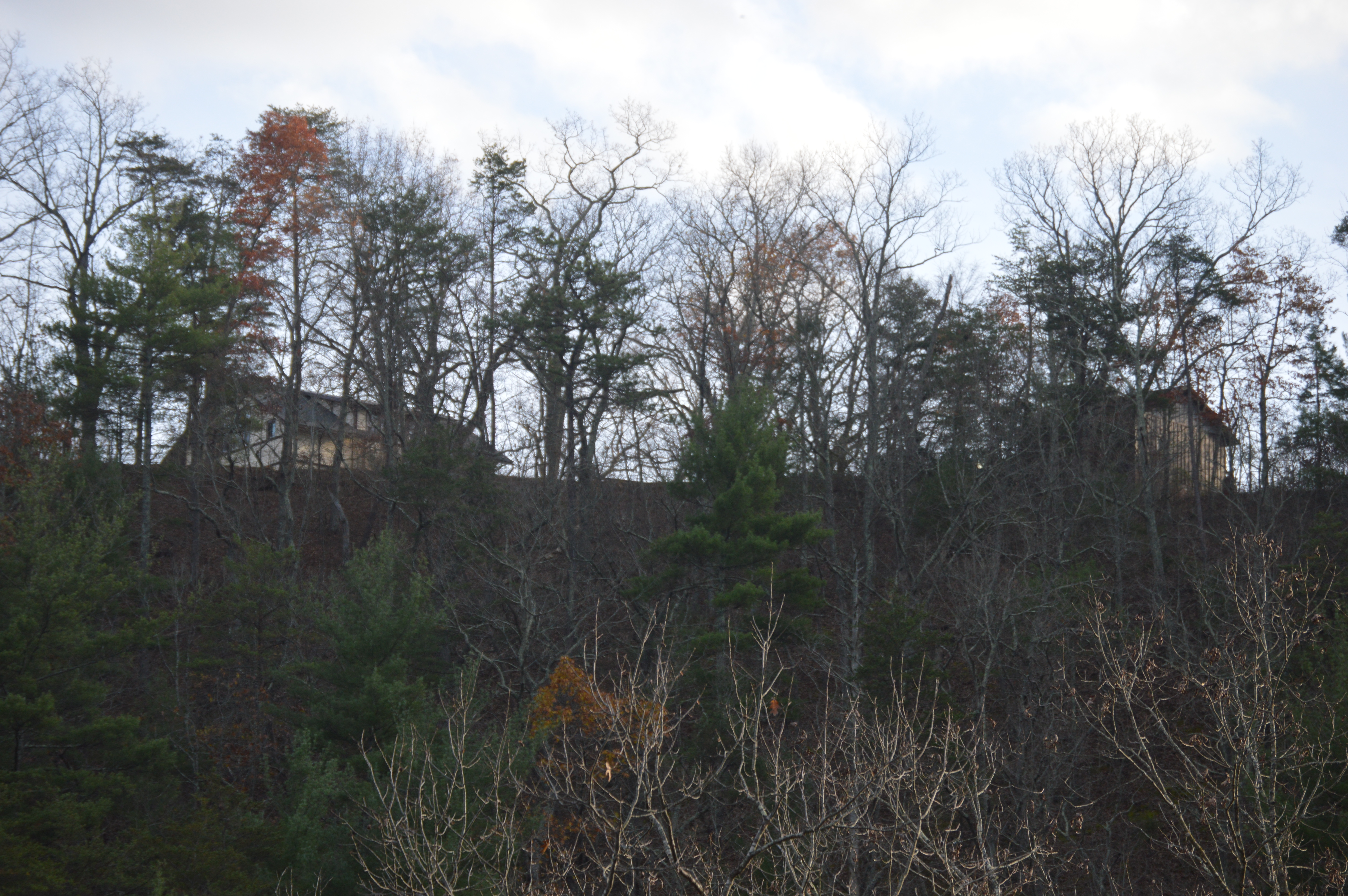 Looking south from U.S. Route 60 toward some of the Luke Mountain complex in Covington, Virginia, United States. The complex is listed on the National Register of Historic Places as a historic district.